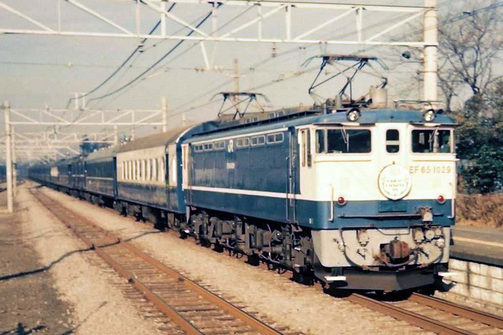 East Japan Railway EF65 1029 "ORIENT EXPRESS '88" At Shinmachi Sta.